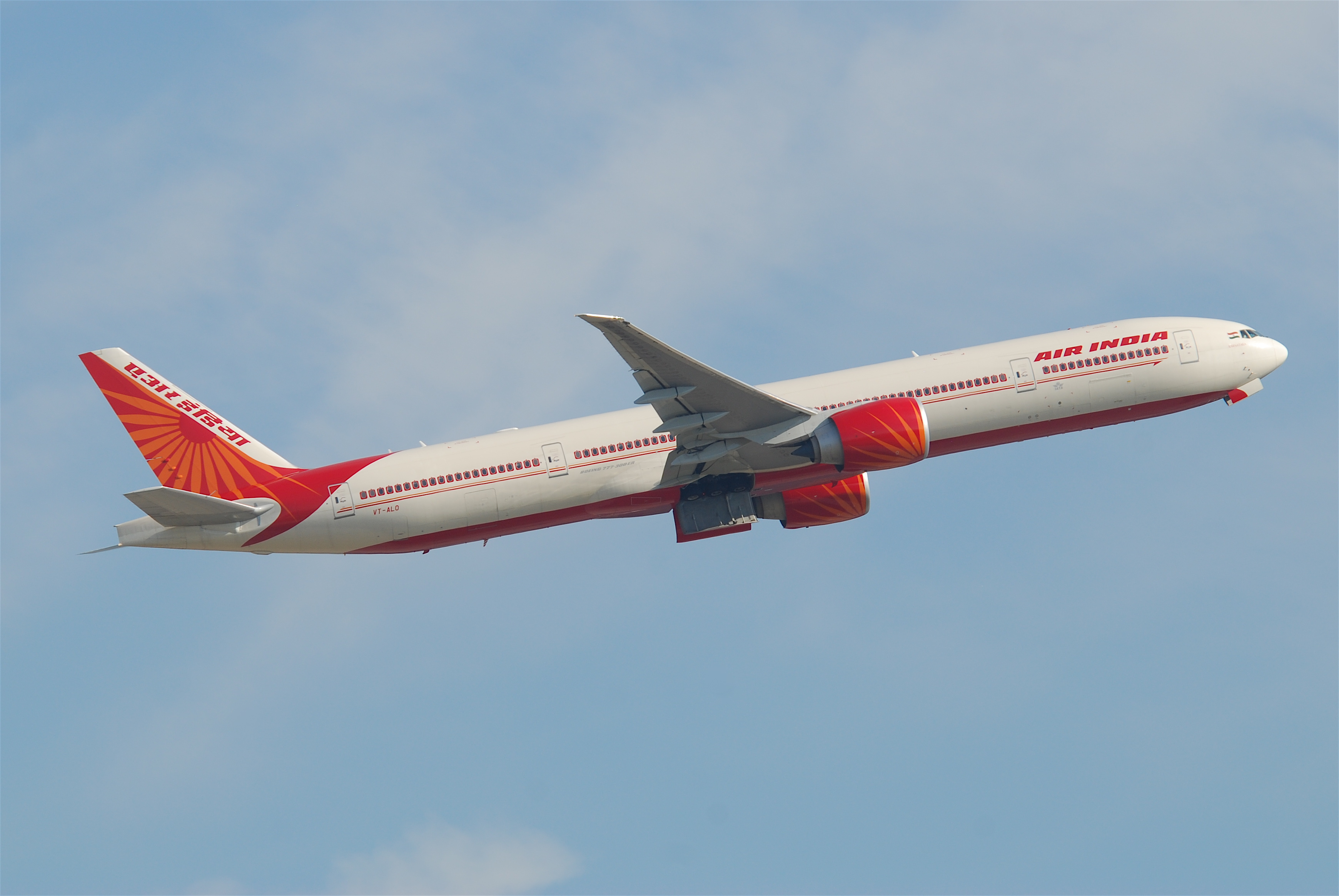 Air India Boeing 777-300; VT-ALO@FRA;09.07.2010/581cc